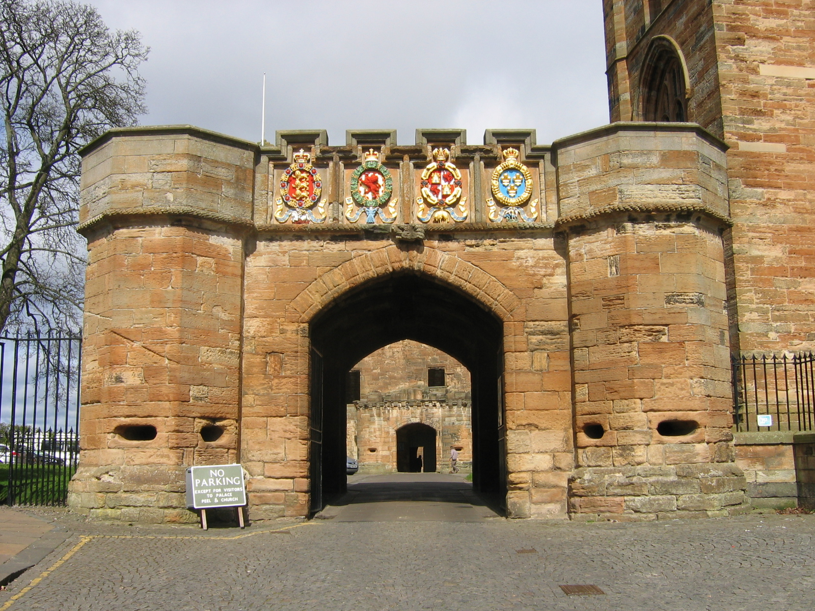 Gate or "forework" of Linlithgow Palace, Scotland.